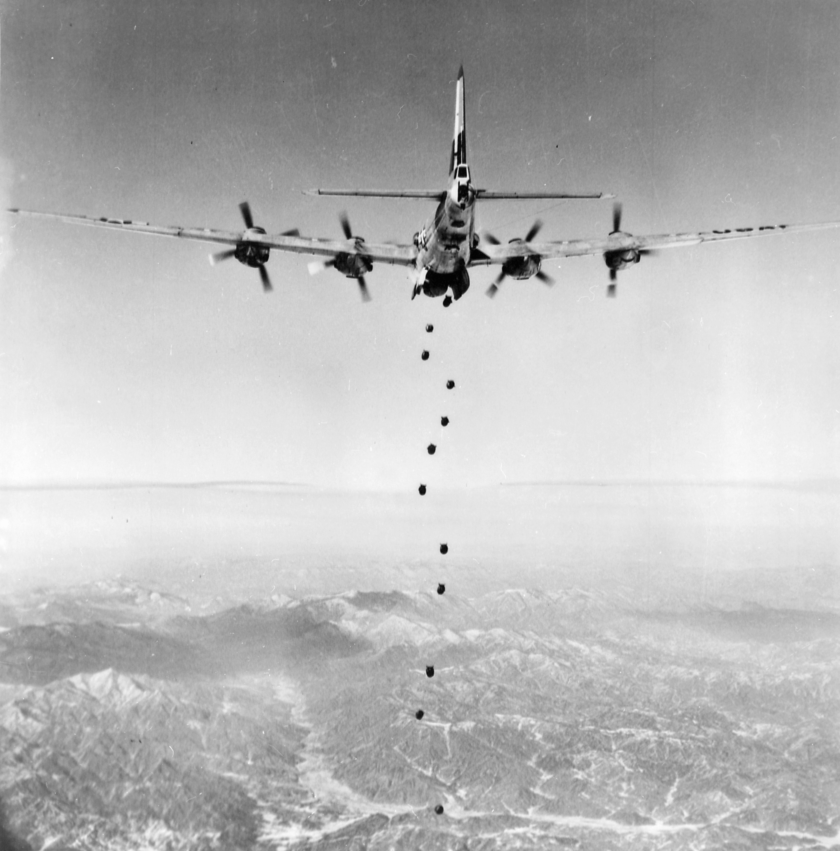 A U.S. Air Force Boeing B-29 Superfortress bomber from the 19th Bomb Group (Medium) attacking a target in Korea in February 1951.Original caption: "Bombs Away-Regardless of the type of enemy target lying in this rugged, mountainous terrain of Korea, very little will remain after the falling bombs have done their work. This striking photograph of the lead bomber was made from a B-29 "Superfort" of the Far East Air Forces 19th Bomber Group on the 150th combat mission the 19th Bomber Group has flown since the start of the Korean war., ca. 02/1951"